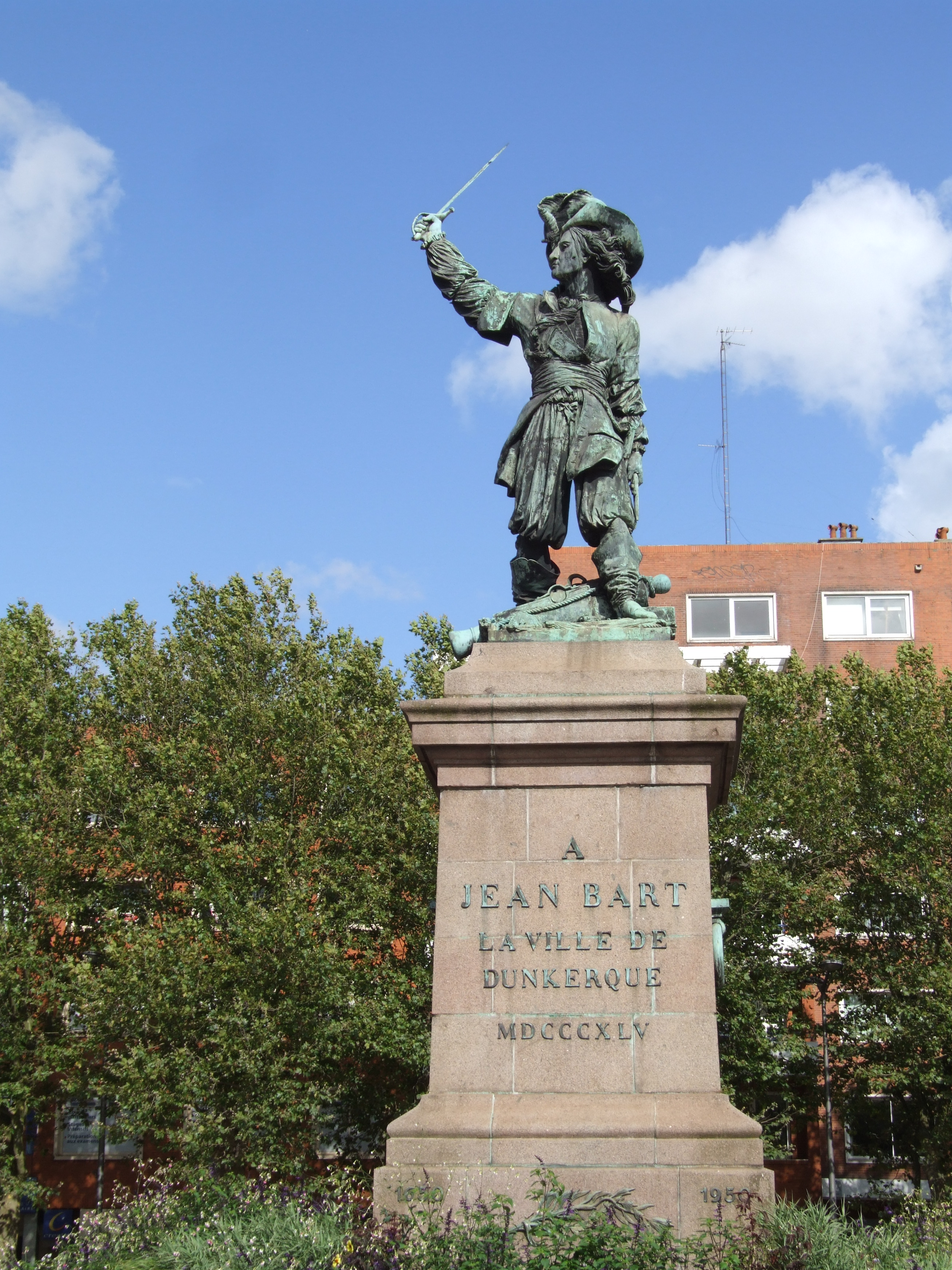 Statue of Jean Bart on the Place Jean Bart in the center of Dunkerque. France - David d'Angers 1845